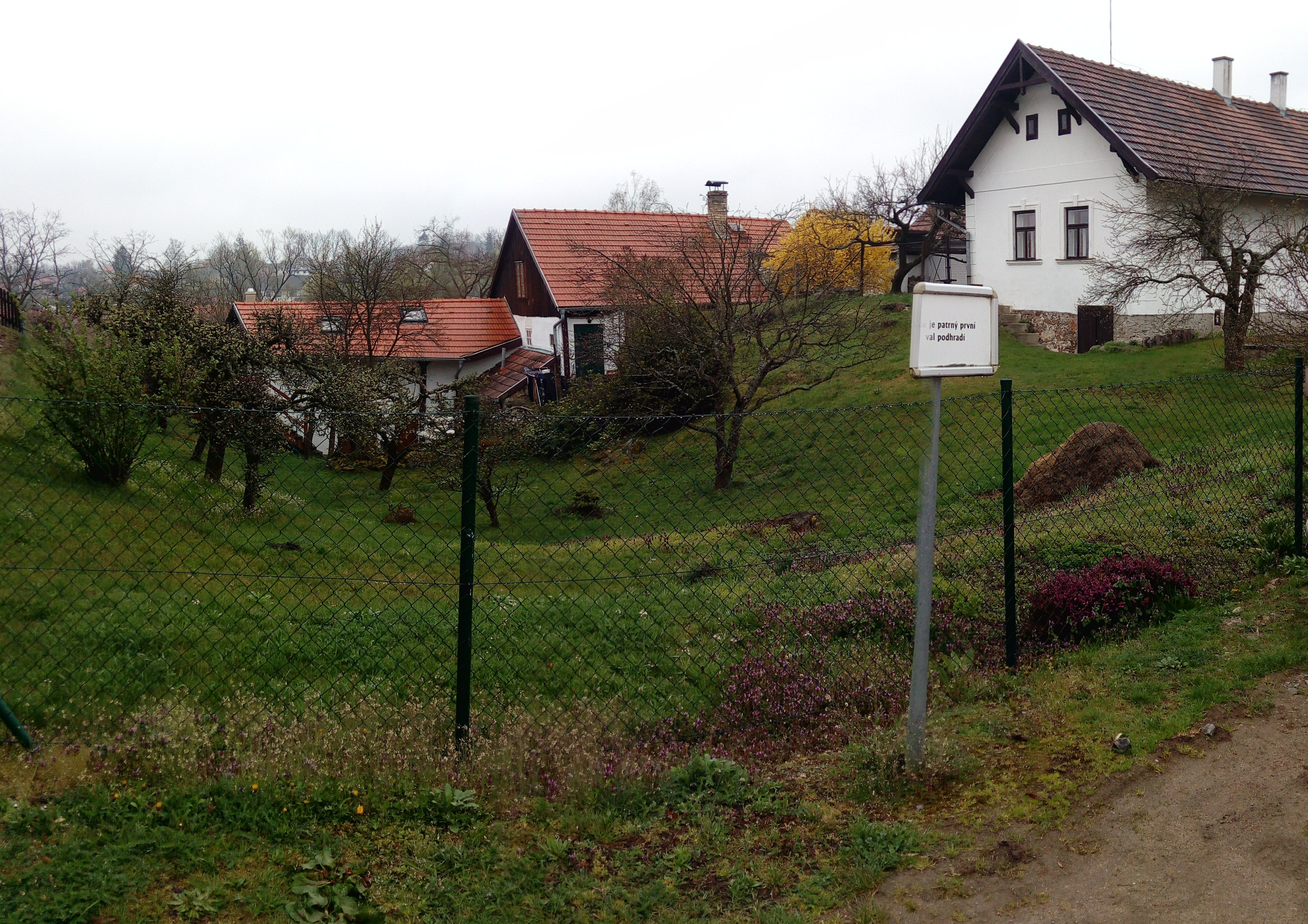 First rampart of the local Slav hillfort in the village of Doudleby, České Budějovice District, Czech Republic; house No 29 at the back (cultural monument).